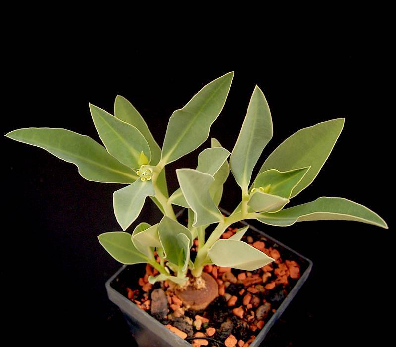 Euphorbia platycephala